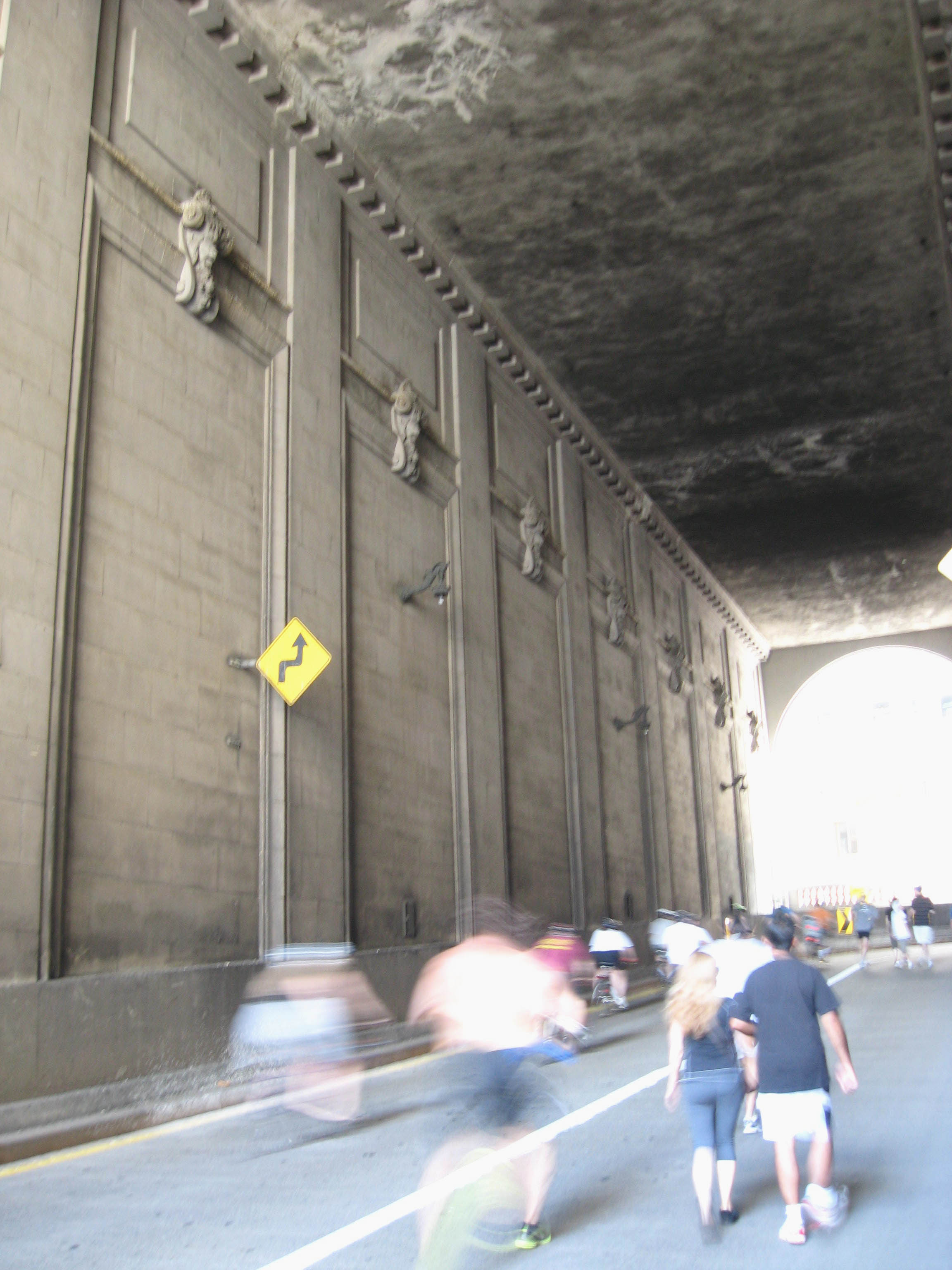 Looking south and up inside the Helmsley Building southbound ramp of Park Avenue Viaduct on a sunny midday